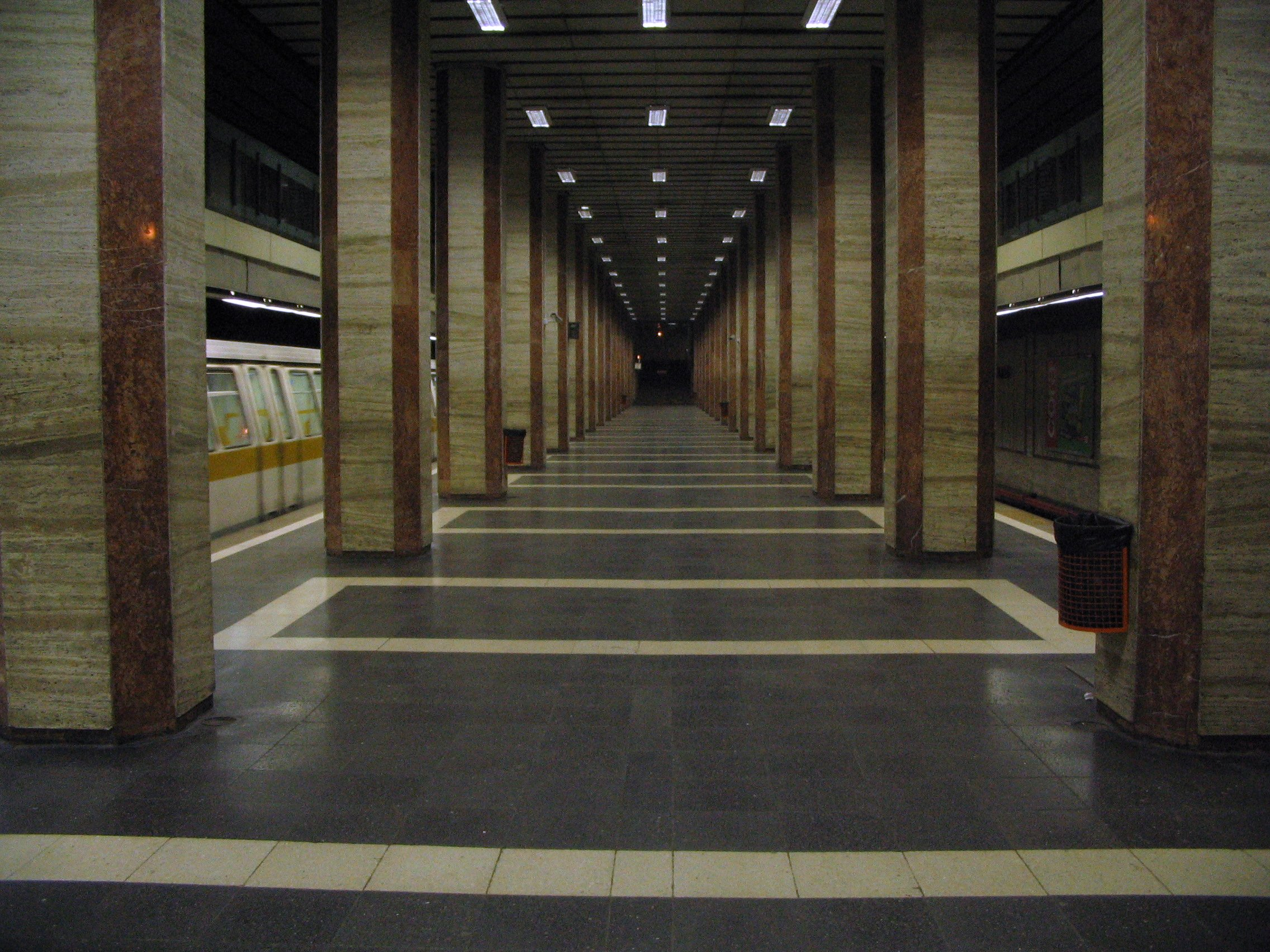 Inside the Republica metro station, Bucharest, Romania